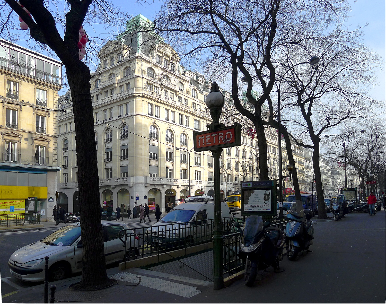 Poissonnière boulevard - Paris